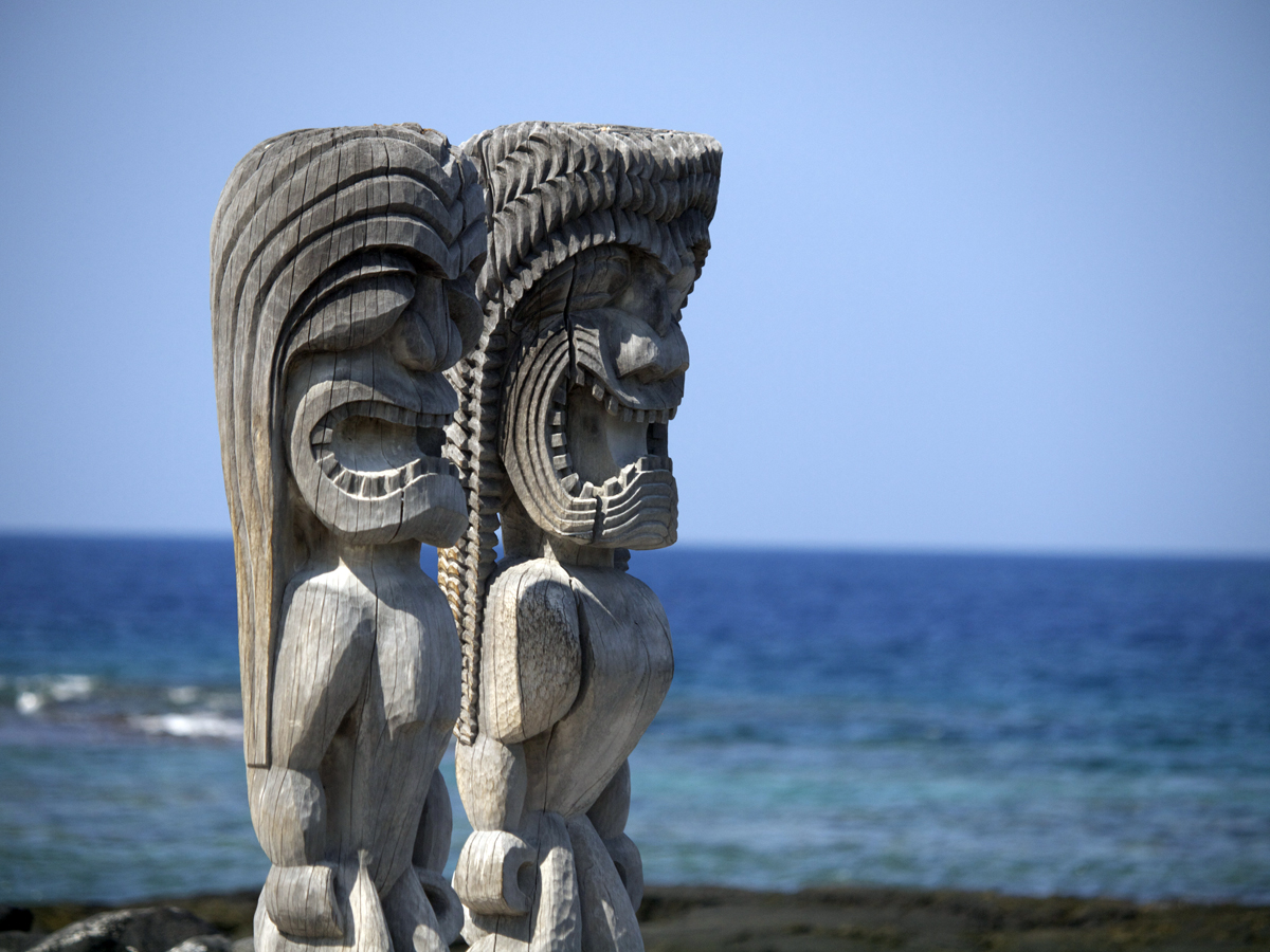 Pu'uhonua O Honaunau National Historical Park